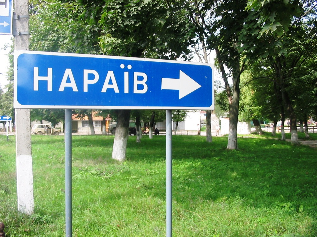 Road sign NARAYIV (village) in Berezhany, Ternopil region, west Ukraine